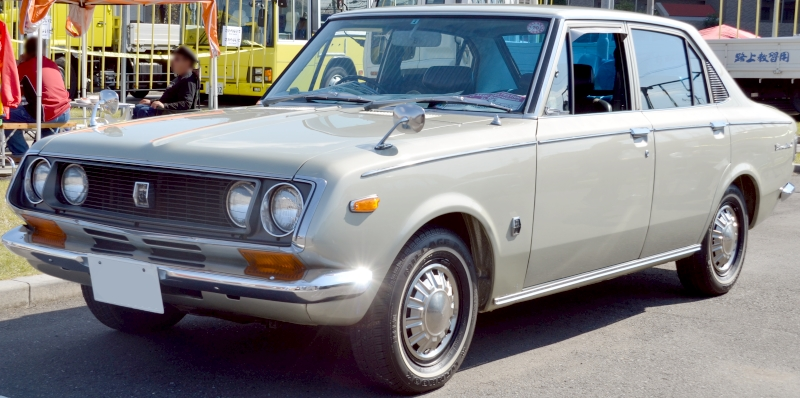 Toyota Corona Mark II Deluxe